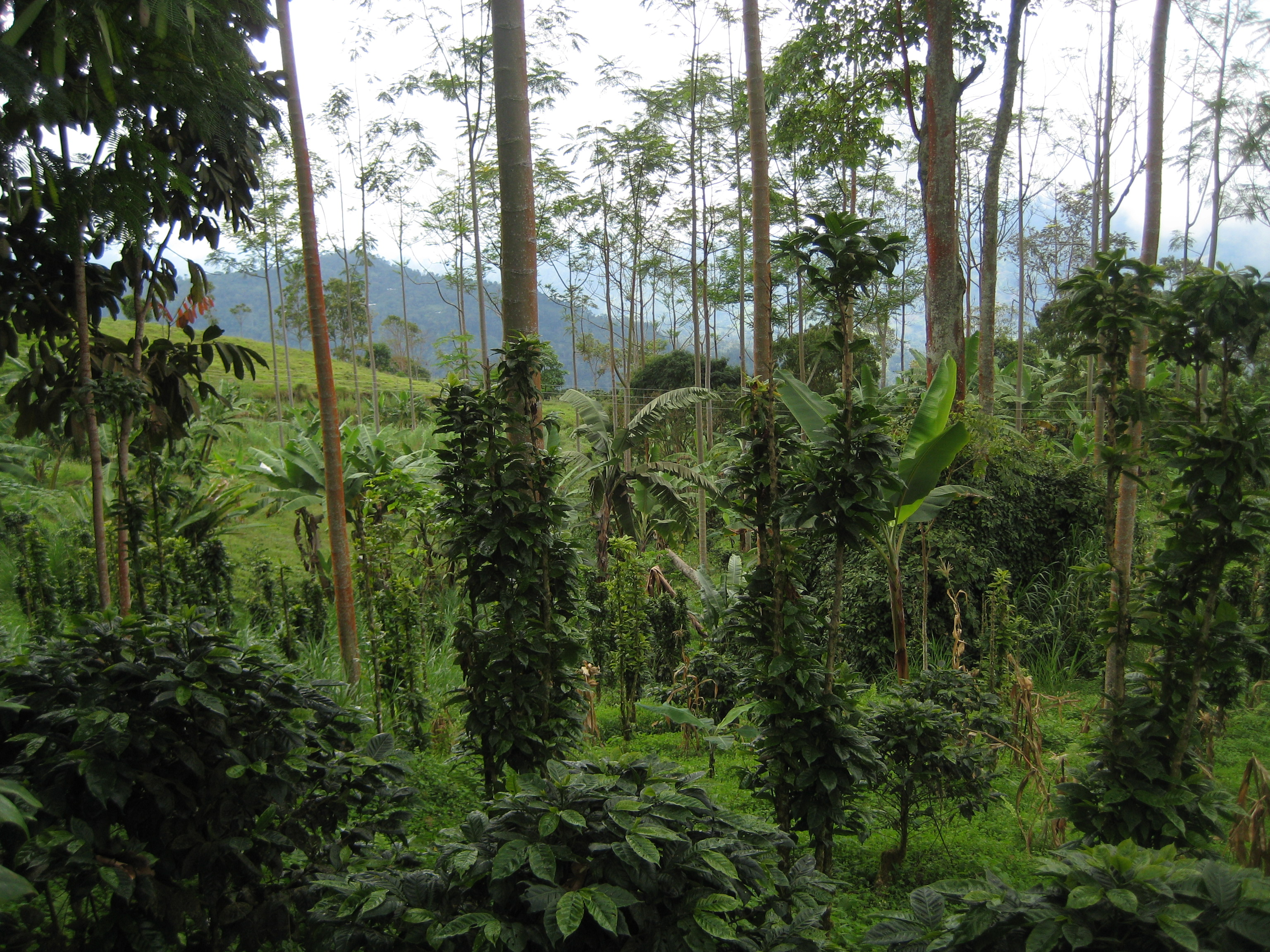 Coffee farm in Colombia, shade-grown coffee. Credit: Brian Smith/American Bird Conservancy